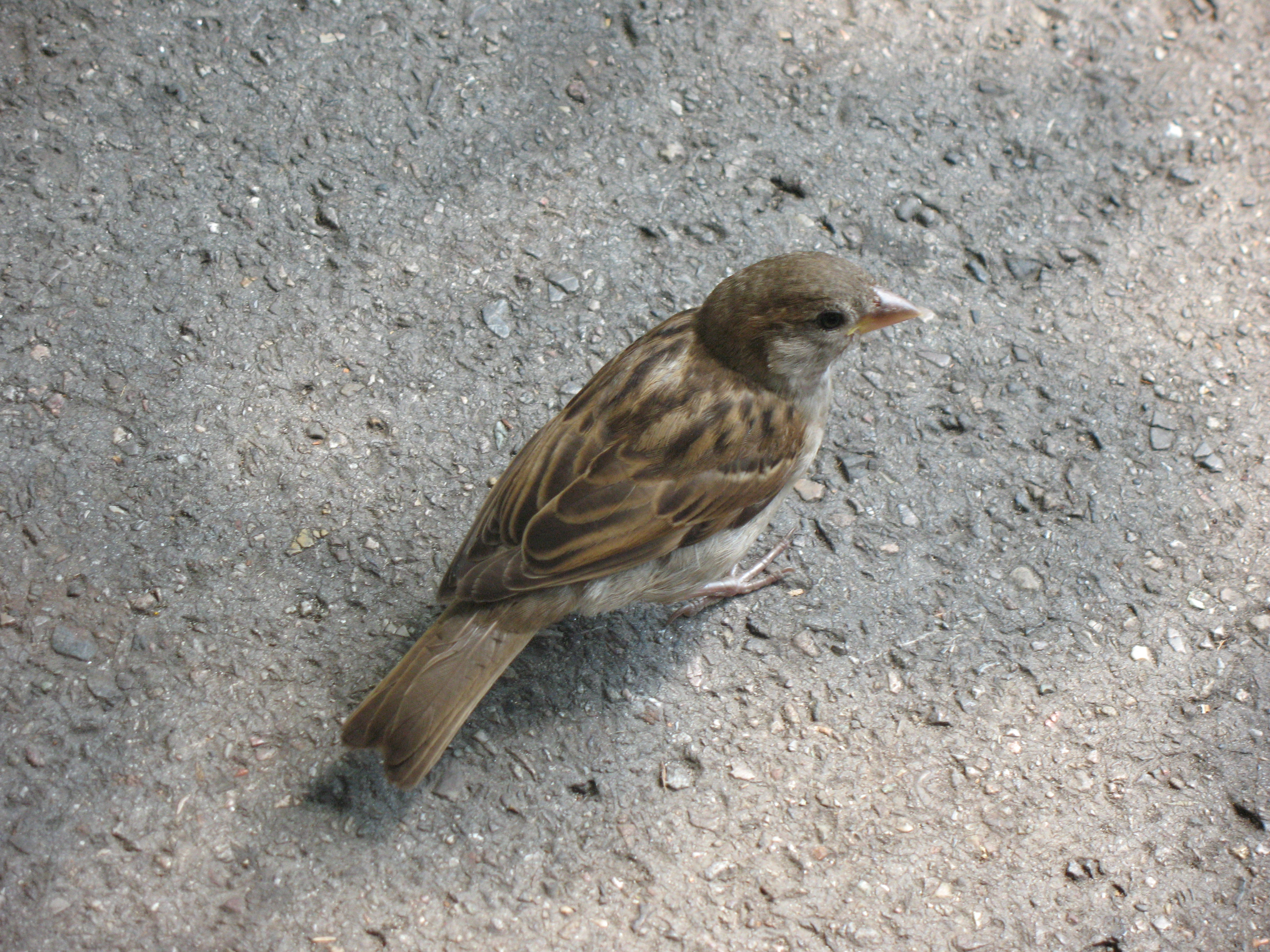 A House Sparrow (Passer domesticus), in Bern, Switzerland